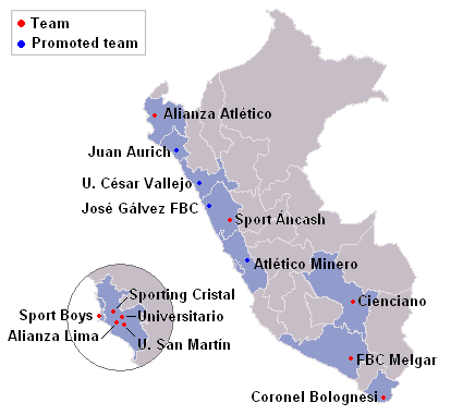 Map of football clubs in Primera Division Peruana 2008. The blue shades indicate that the respective department has a football club in the first division